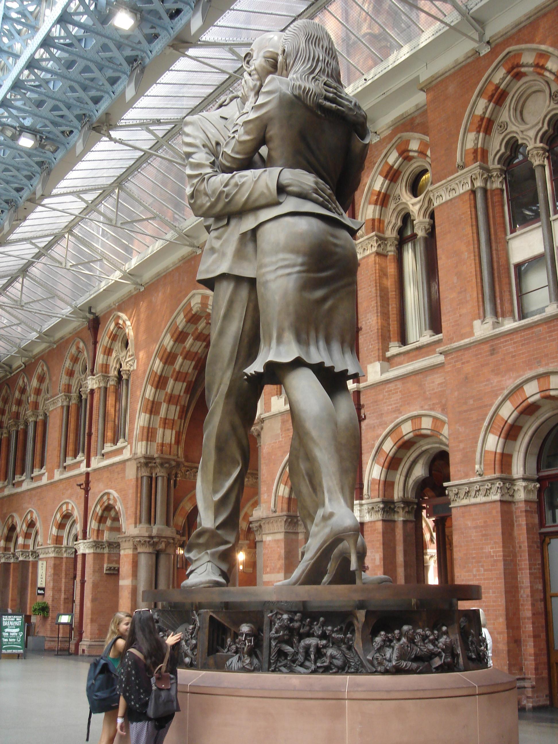 St Pancras Station and Former Midland Grand Hotel